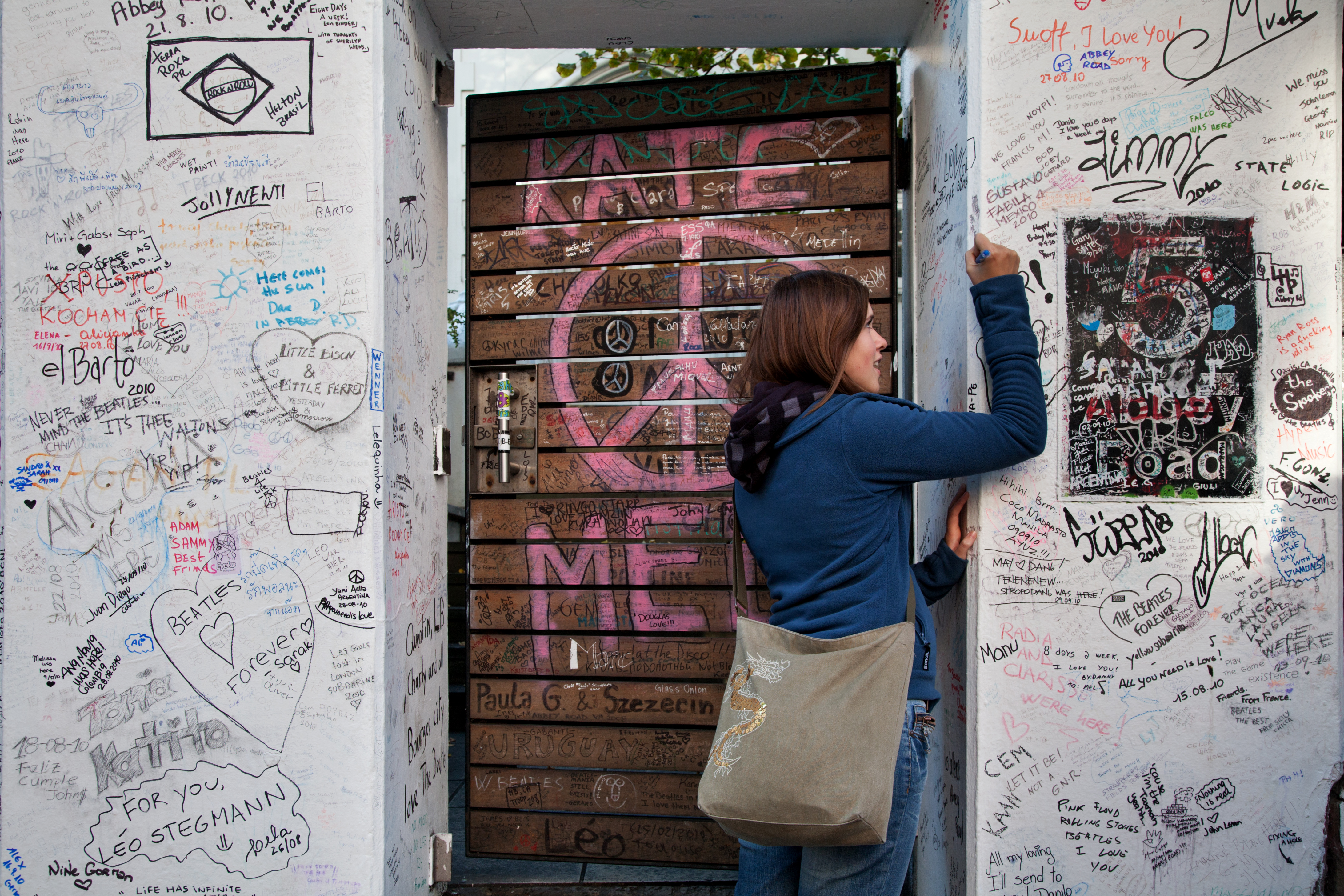 Apple Records graffiti wall, Abbey Road, London, UK